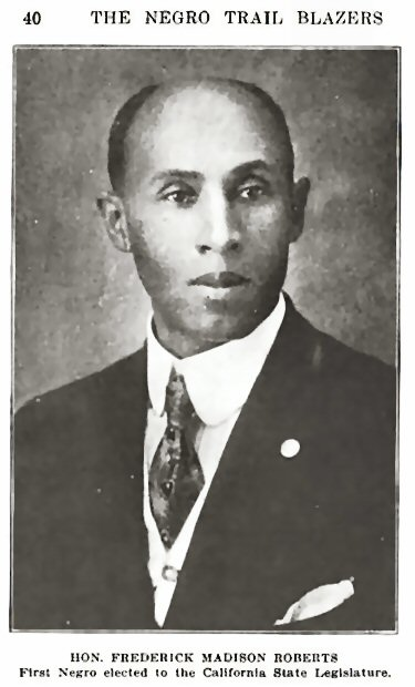 Frederick Madison Roberts — African American "Trail Blazer" of California.